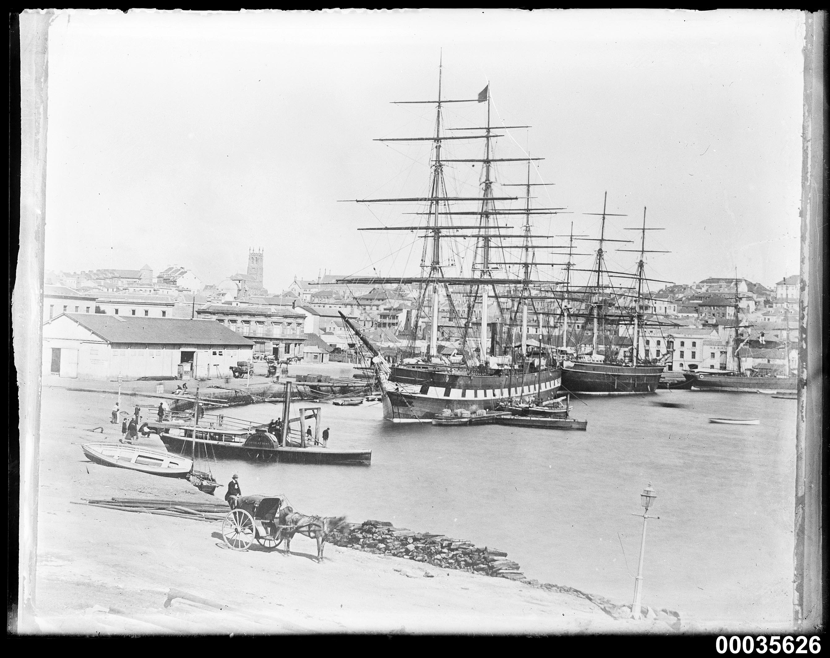 This image depicts Circular Quay in 1866, seen from the eastern side, with the North Shore Ferry Company's paddle wheel steam ferry HERALD in the foreground at a wharf at the foot of Phillip Street. The Black Ball Line's full rigged ship GREAT VICTORIA and two other sailing vessels are lying at the Quay. The early Sydney customs house and the tower of St Philip's church in York Street are seen in the background, to the left of the GREAT VICTORIA. This is one of the earliest dated images of a Sydney ferry. The Australian National Maritime Museum undertakes research and accepts public comments that enhance the information we hold about images in our collection. If you can identify a person, vessel or landmark, write the details in the Comments box below. Thank you for helping caption this important historical image. Object number: 00035626